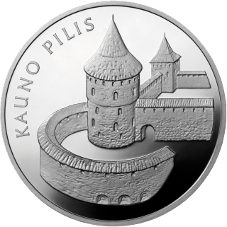 50 litas coin dedicated to the Kaunas castle Silver Ag 925 Quality proof TDiameter 38.61 mm Weight 28.28 g The edge of the coin: ISTORIJOS IR ARCHITEKTŪROS PAMINKLAI (HISTORICAL AND ARCHITECTURAL MONUMENTS OF LITHUANIA) Designed by Giedrius Paulauskis Mintage 10,000 pcs Issue 2008 The coin was minted at the UAB Lithuanian Mint.